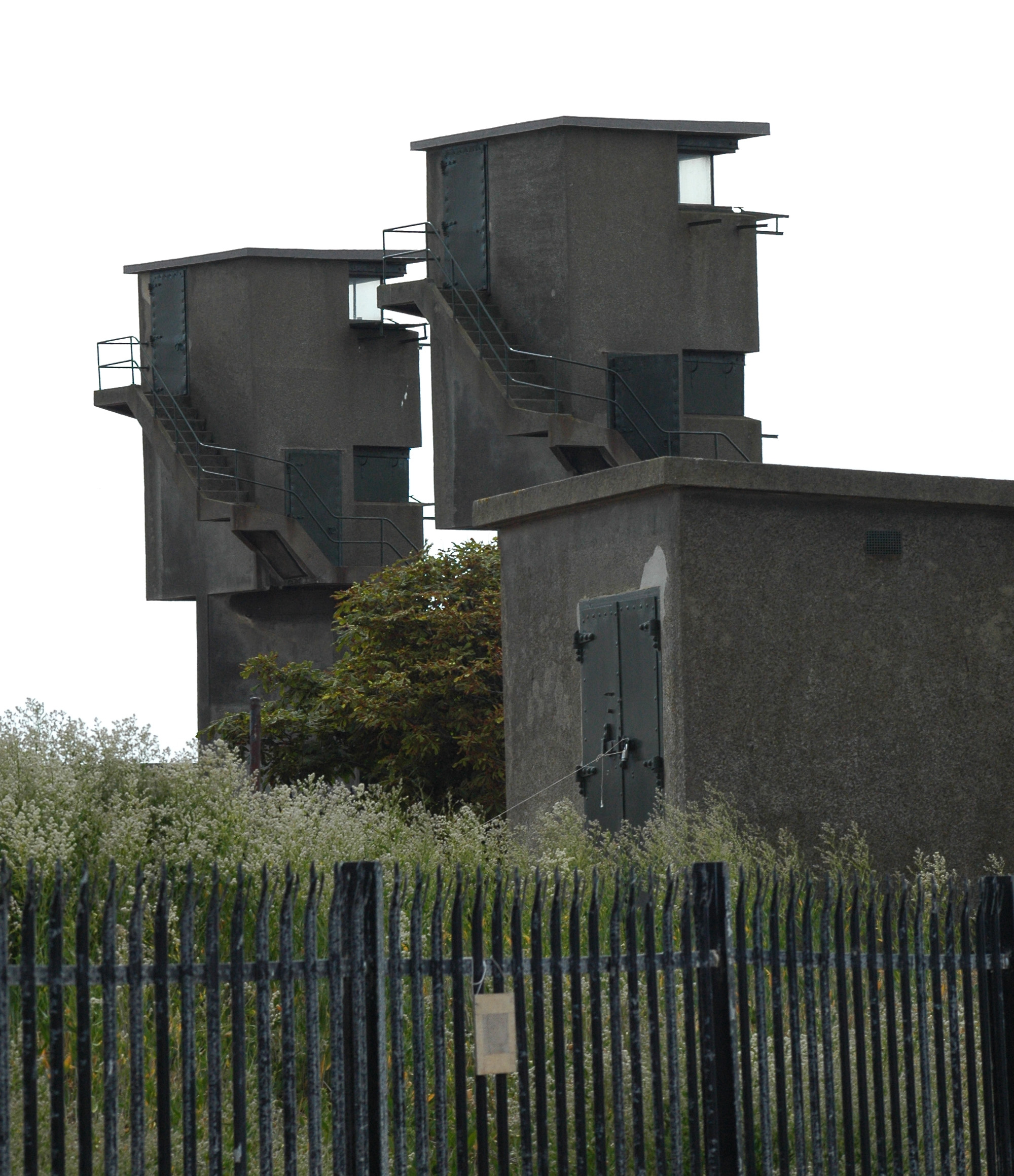 Darell's Battery at Landgard Fort.